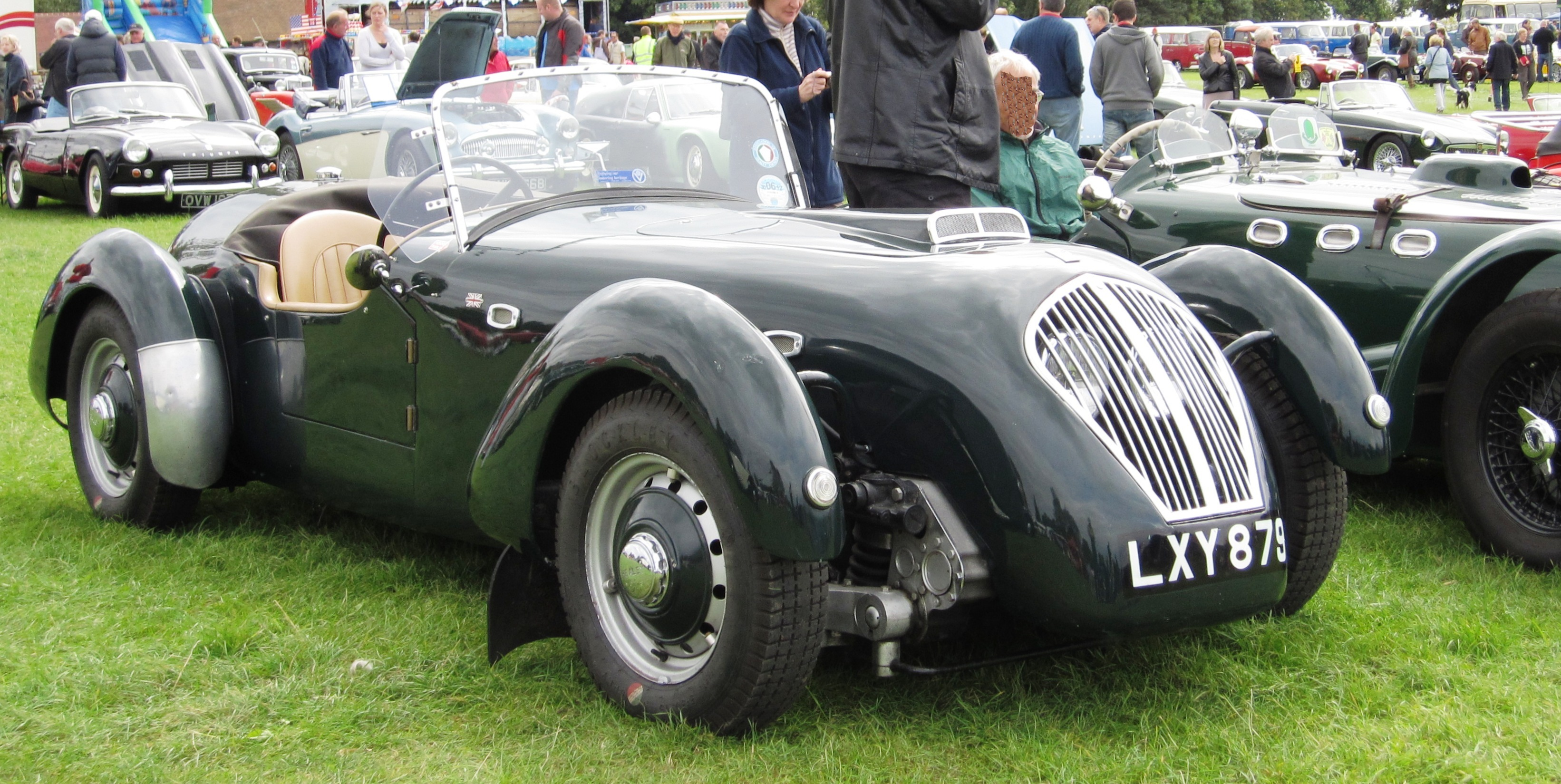 Healey Roadster at Knebworth classic car show (DVLA) first registered 9 April 1951, 2443cc